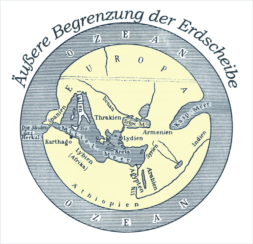 Milesian world map about 510 BC